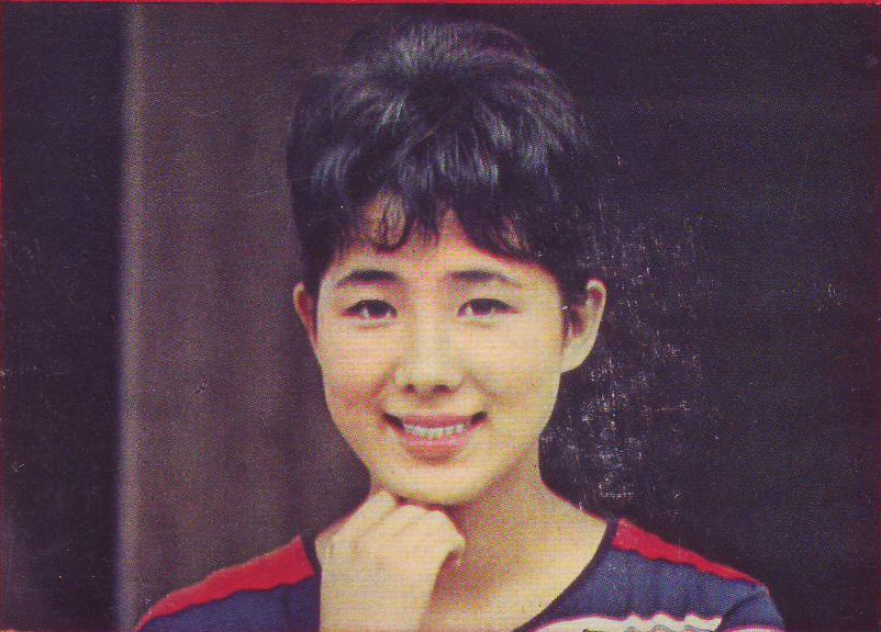 Yukari Ito (Vocalist from Japan). taken in 1963.